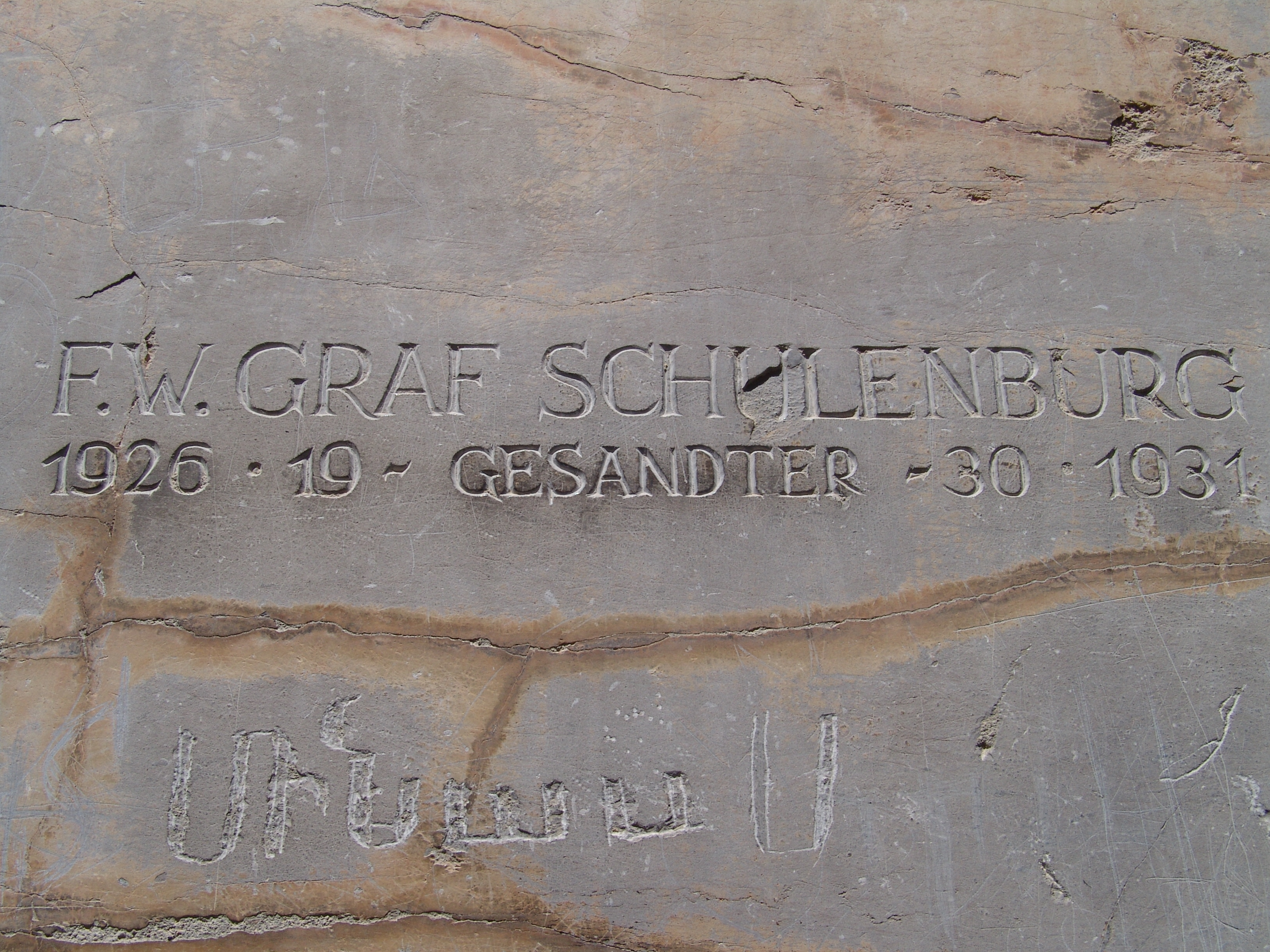 Persepolis